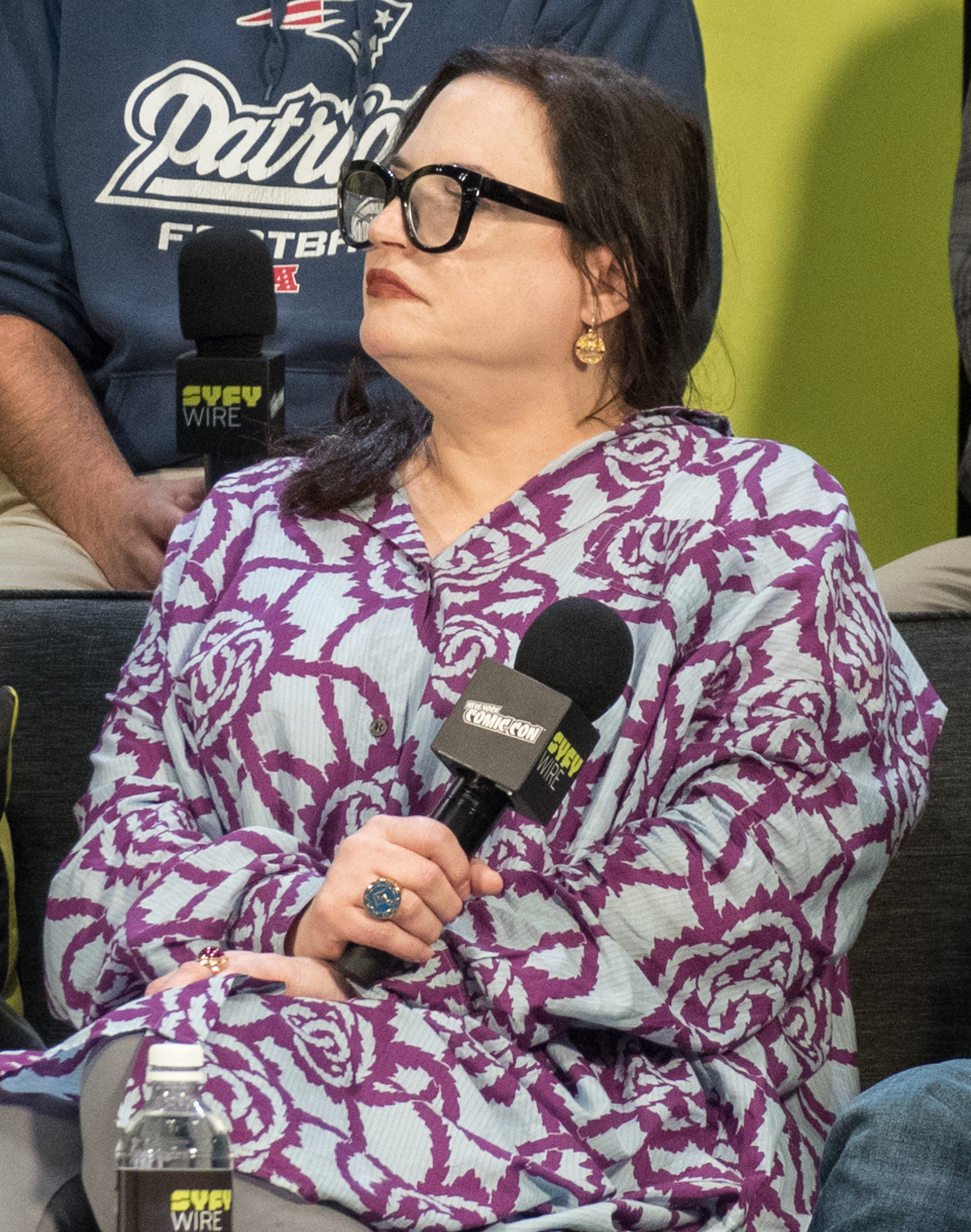 Family Guy panel at New York Comic Con in October 2018. Front: Rich Appel, Kara Vallow, and Mike Henry. Rear: Alec Sulkin and John Viener